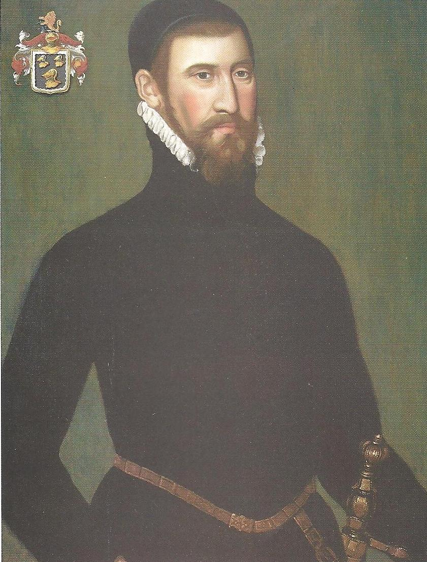 Sir Leonard Halliday; Lord Mayor of London 1605.